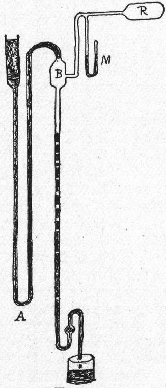 In Fig. is given a diagram of the best of these mercury pumps, the one devised by Sprengel. The supply of mercury is contained in the reservoir on the left. It flows over into the bulb B, where it falls in drops into the long tube on the right. These drops entrap between them the air in B. The mercury which runs out is collected and poured back into reservoir on the left. In this manner practically all the air can be removed from the bulb B, and hence from any vessel R, which may be connected with B. At M is a manometer which indicates the pressure in the vessel R, which is being exhausted. A pump of this type is capable of producing a vacuum in which the pressure is only 100,000,000th of an atmosphere. [1]